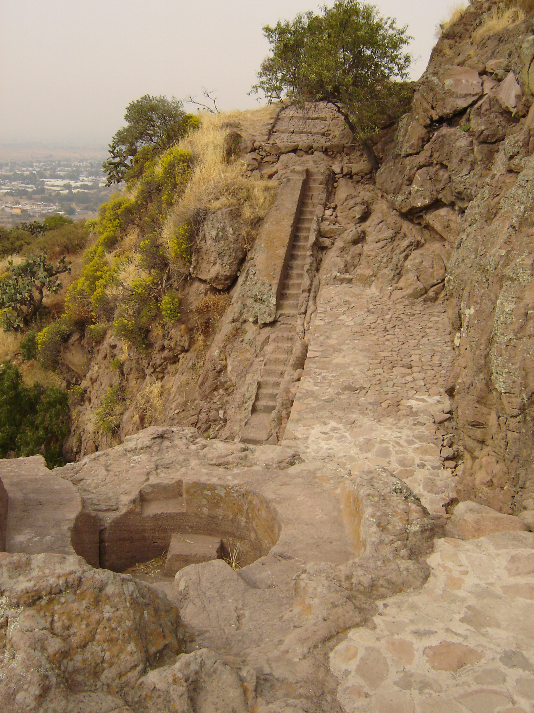 Author: Martin Polanco Picture of "Baño del Rey"